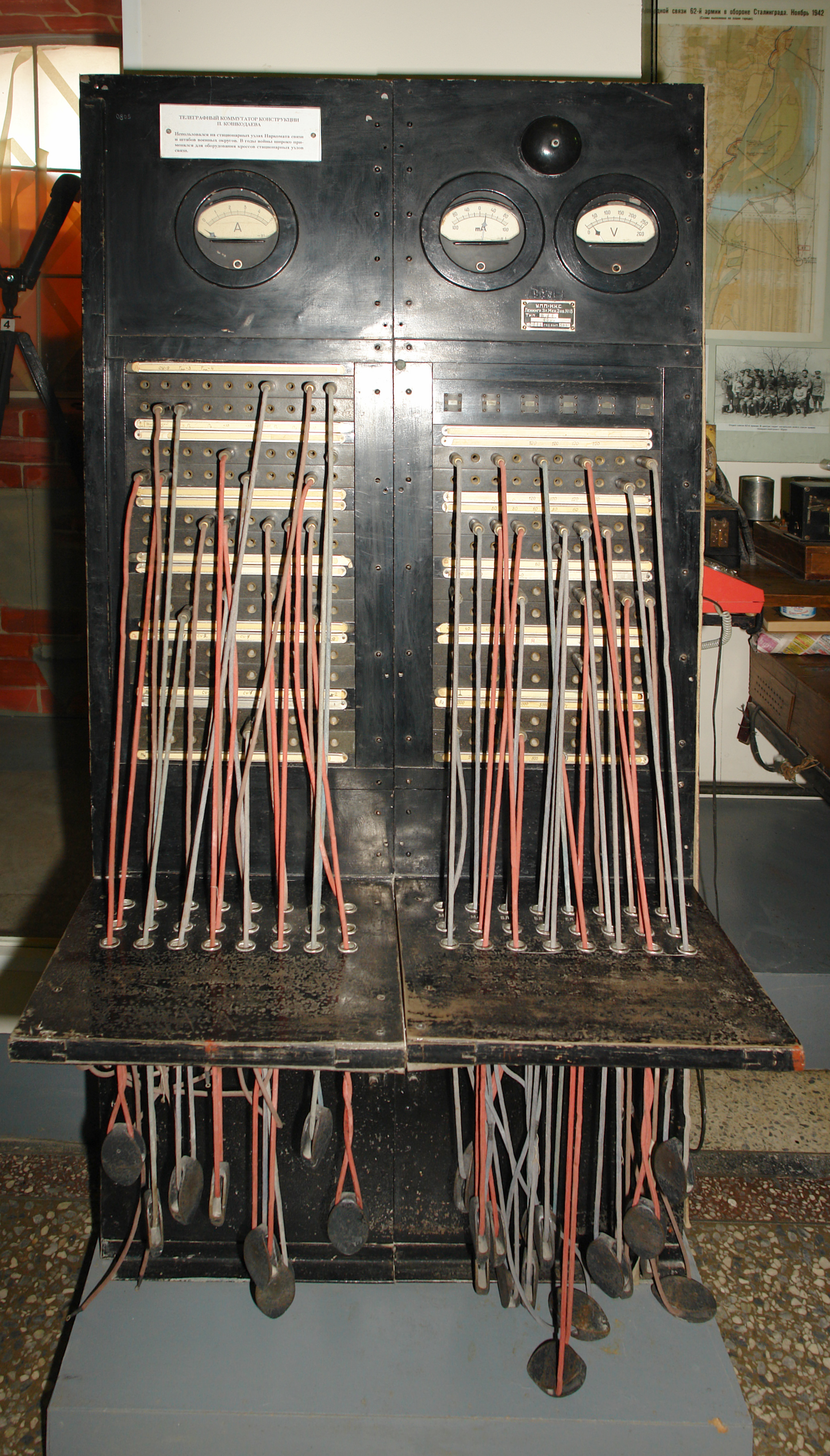 Telegraphic P. Koshkodaeva switchboard construction. Used for stationary nodes Narkomata communications and military district headquarters. During the war years was widely used for stationary equipment crossover nodes. Military Museum artillery, engineering troops and the troops regard, St. Petersburg.